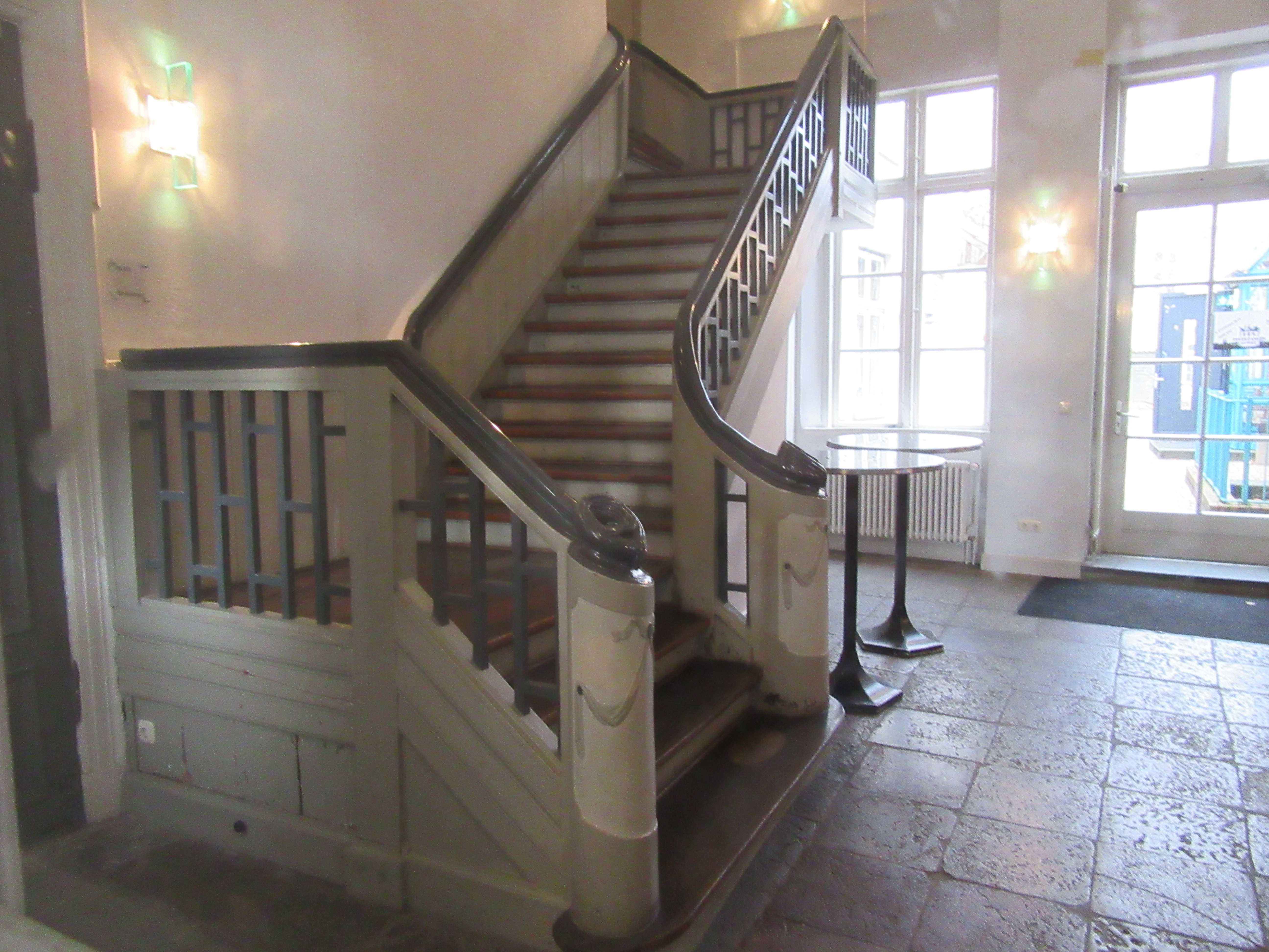 St.-Annen-Strasse 4